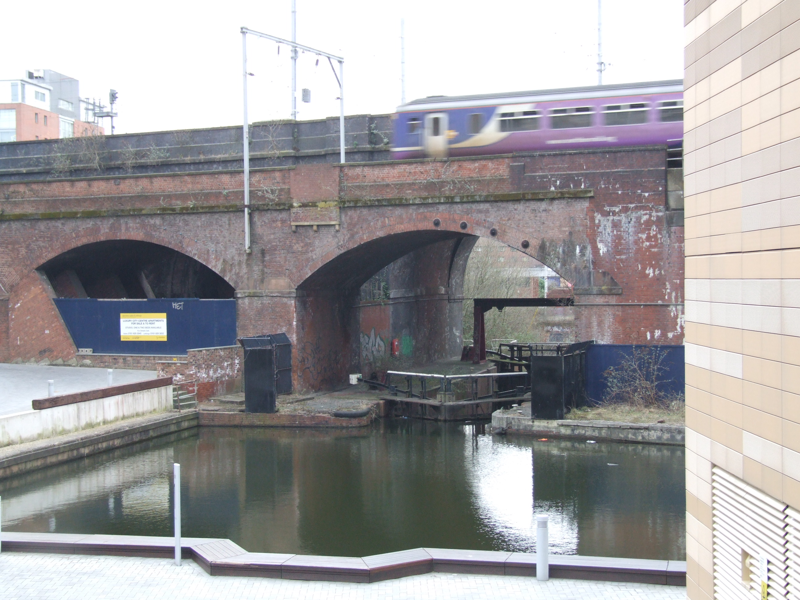 The Hulme Locks Branch Canal in Castlefield was built in 1839 to connect the River Irwell with the Bridgewater Canal. It joined the Irwell at the confluence with the River Medlock. It was closed in 1995 when new link was constructed at Pomona Docks. Over the middle basin, The bottom locks under the three viaducts - Google Maps - Google Earth